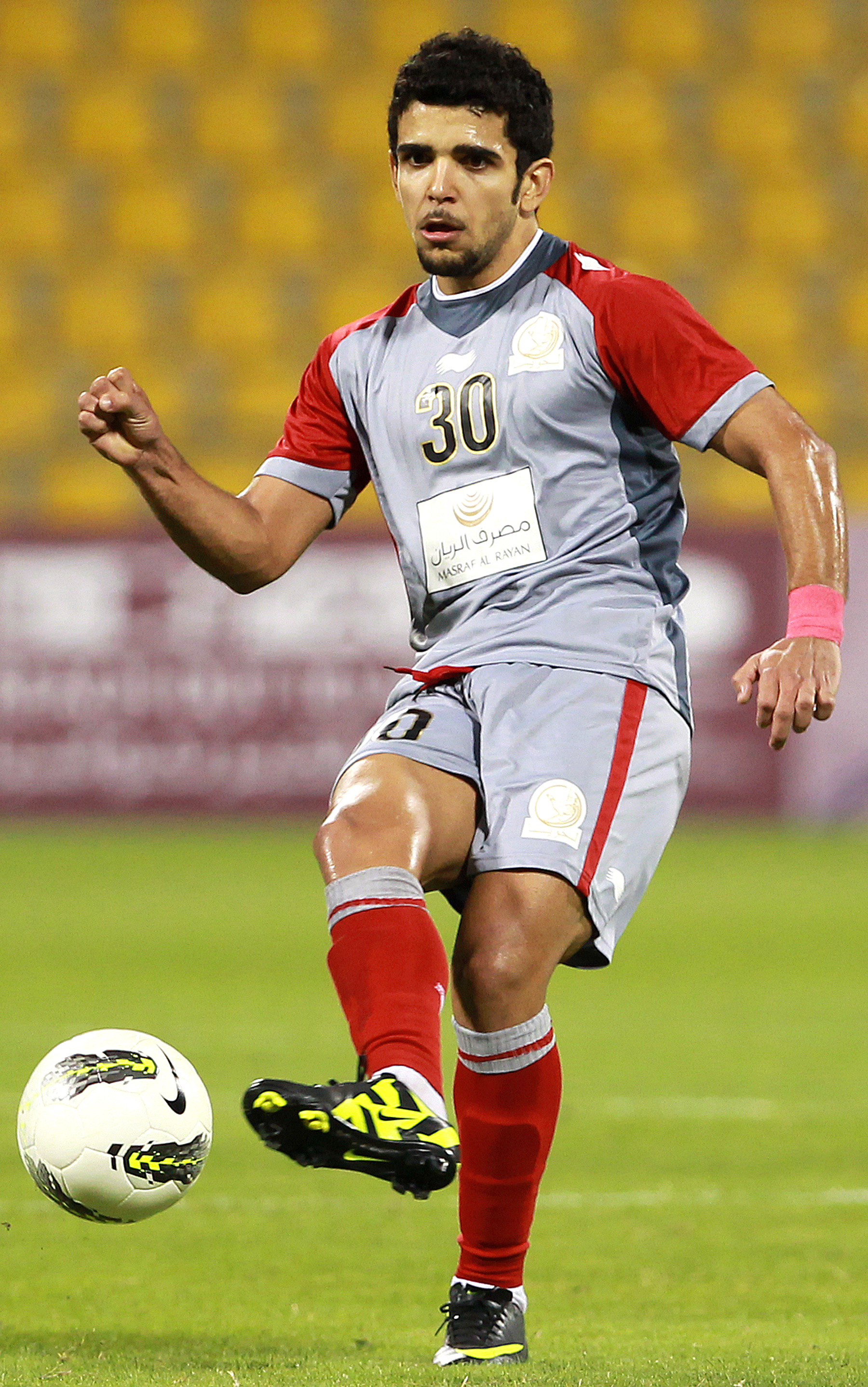 Lekhwiya's Luiz Martin kicks the ball during their Qatar Stars League match.